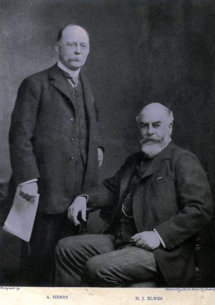 Photograph of Augustine Henry & Henry John Elwes, authors of The Trees of Great Britain & Ireland, published 1913.